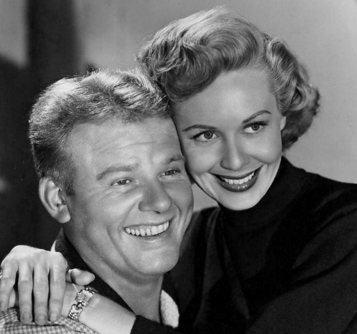 Photo of Alan Hale, Jr. and Randy Stuart from the television drama series Biff Baker, U.S.A..